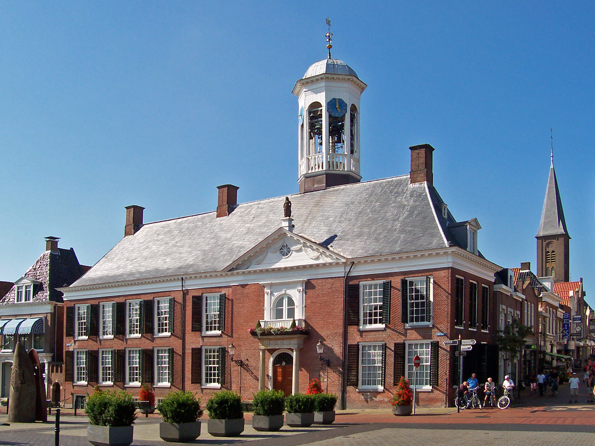 Dokkum, town hall